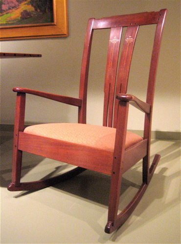 Charles Sumner Greene (United States (California, Pasadena), 1868 - 1957) , Henry Mather Greene (United States (California, Pasadena), 1870 - 1954) , Peter Hall Manufacturing Company (1906 - 1922) Bedroom Rocking Chair from the Robert R. Blacker House, Pasadena, 1907 Furniture, Mahogany, ebony, oak, boxwood, copper, silver-plated steel, abalone, and cotton upholstery, 37 3/8 x 25 7/8 x 31 1/4 in. (94.93 x 65.72 x 79.38 cm) Museum Acquisition Fund (81.3.2) Wikipedia Loves Art at the Los Angeles County Museum of Art This photo of item # 81.3.2 at the Los Angeles County Museum of Art was contributed under the team name "artifacts" as part of the Wikipedia Loves Art project in February 2009. Los Angeles County Museum of Art The original photograph on Flickr was taken by Beesnest McClain—please add a comment to the original Flickr page whenever a use has been made on Wikipedia or another project. Project galleries on Flickr: this institution, this team